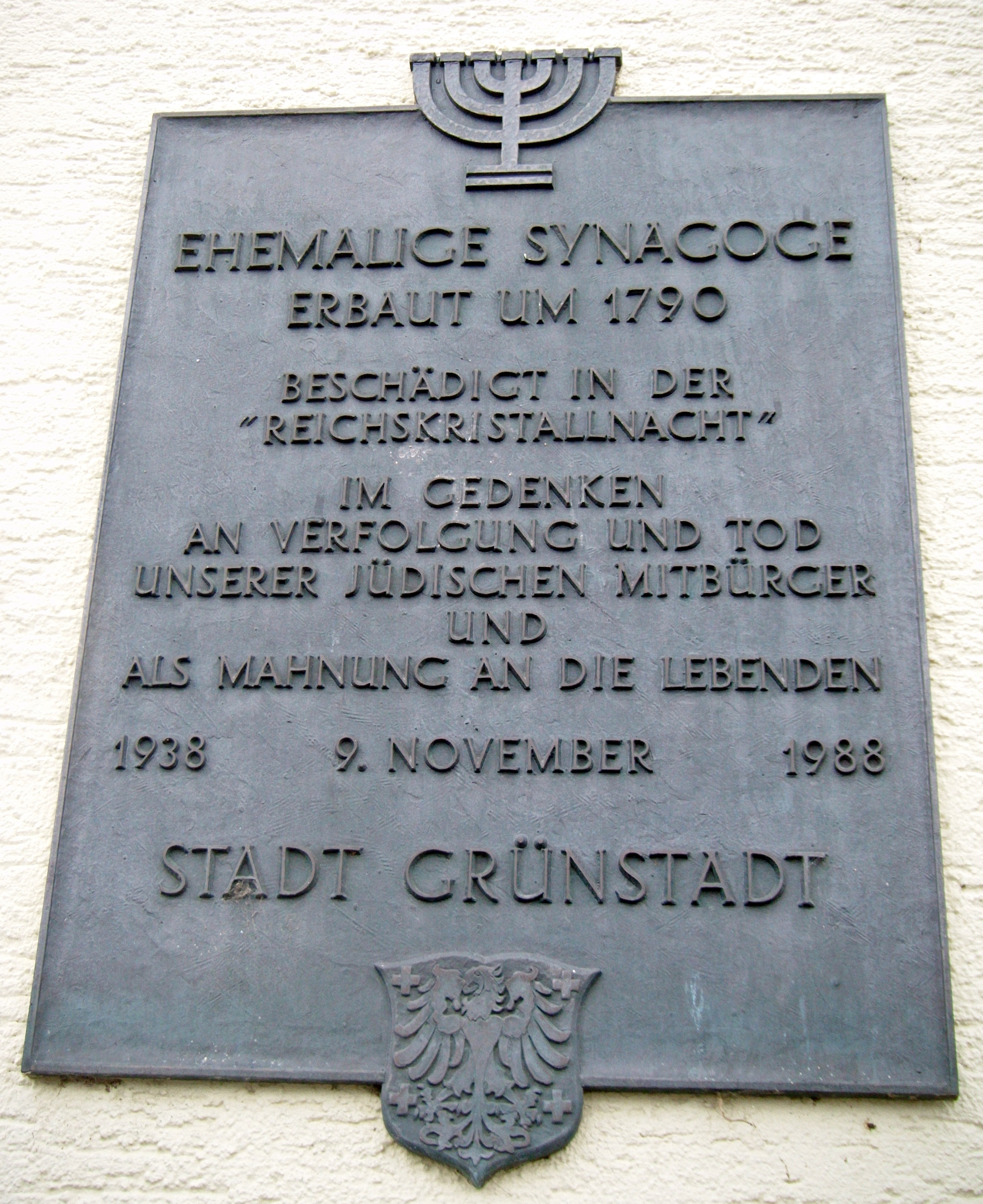 Grünstadt Synagoge, Gedenktafel